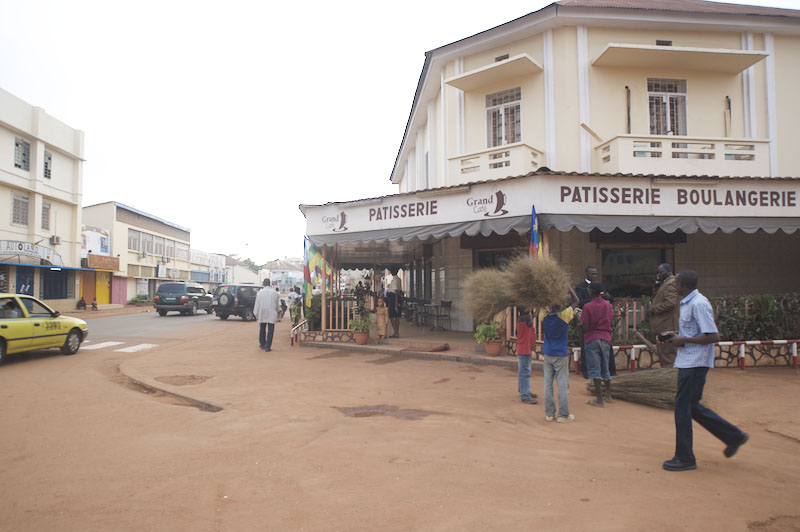 The Bangui City